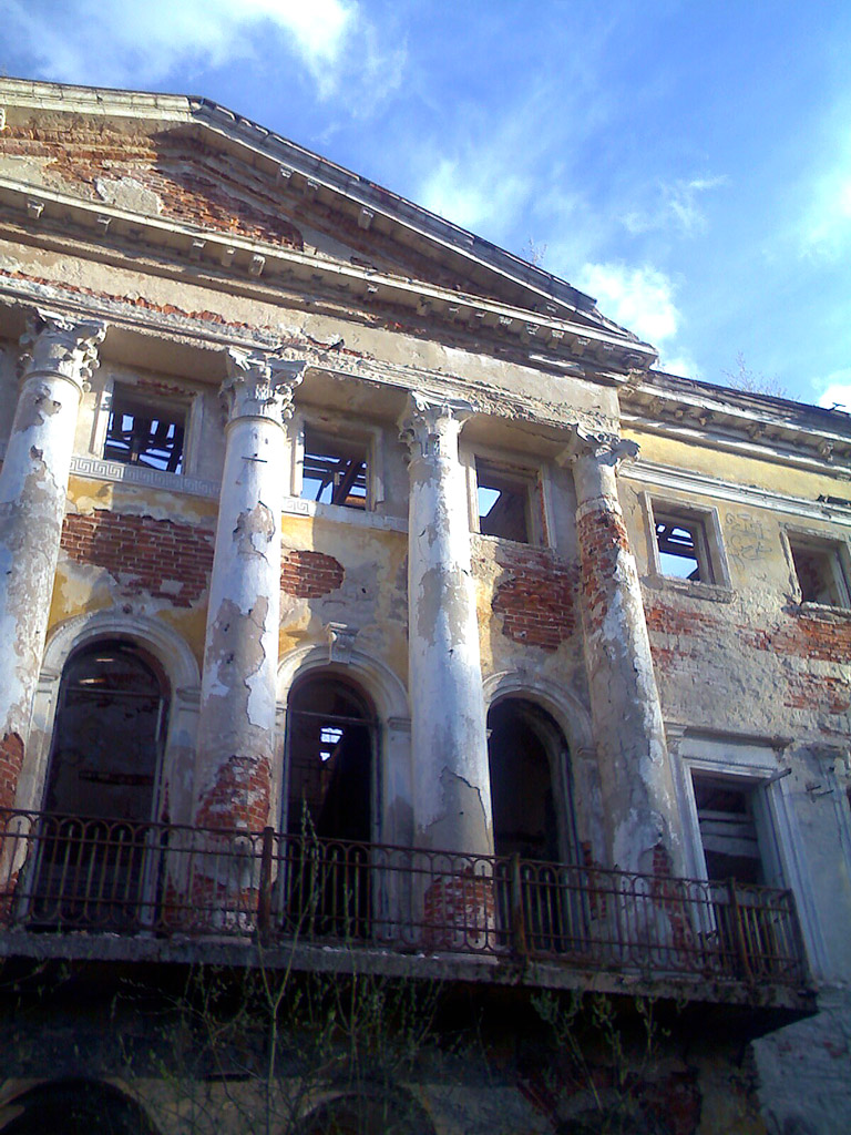 Grebnevo Estate